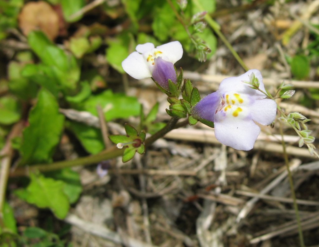 Photograph of Mazus pumilus.